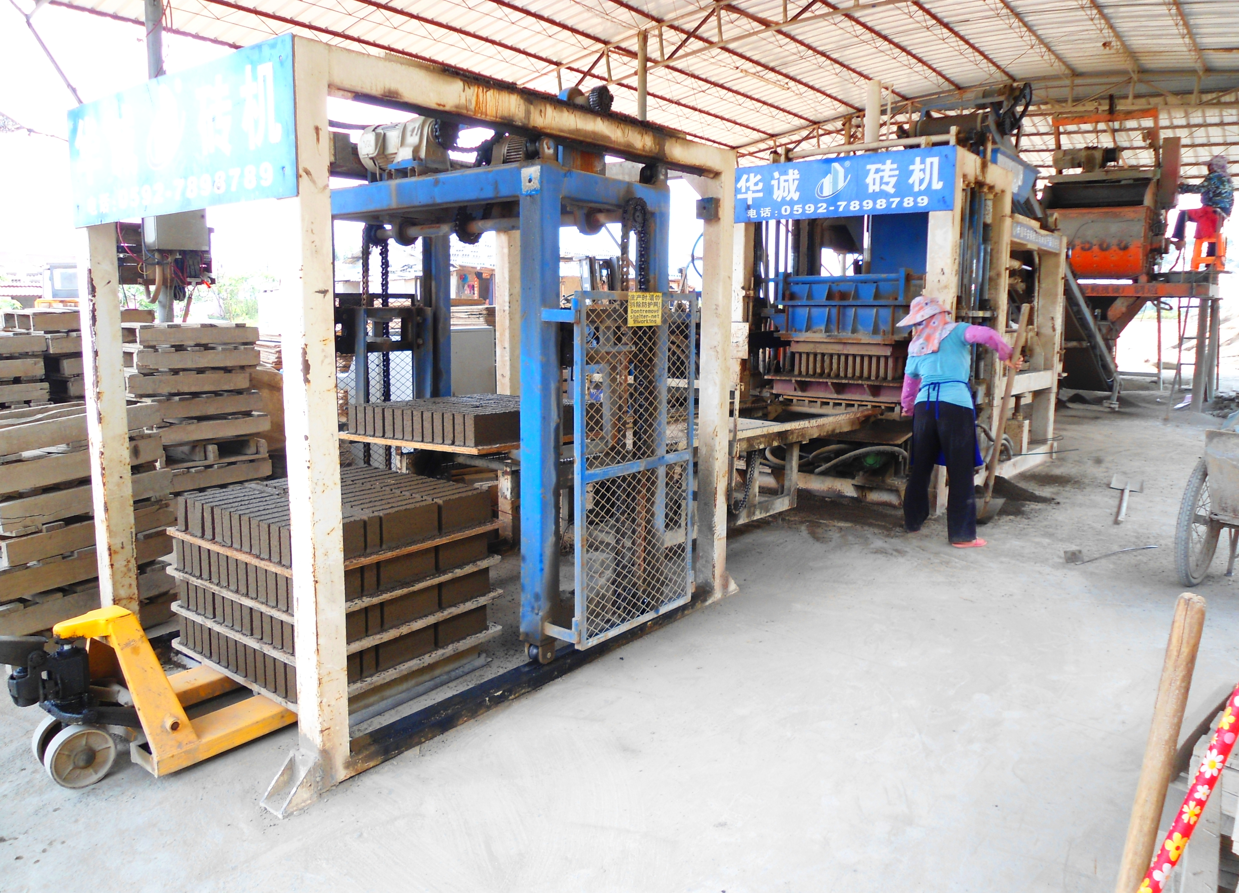 Brickworks, Hainan Province, People's Republic of China. The machine makes 42 bricks approximately every 30 seconds.